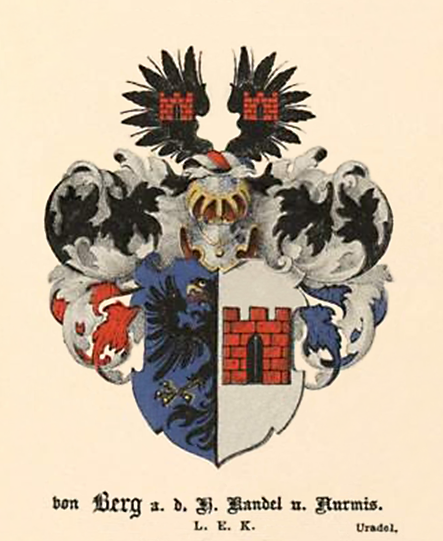 von Berg a. d. H. Kandel, Karmel und Nurmis CoA